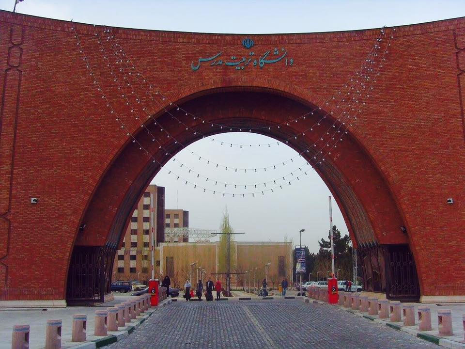 Gate of University